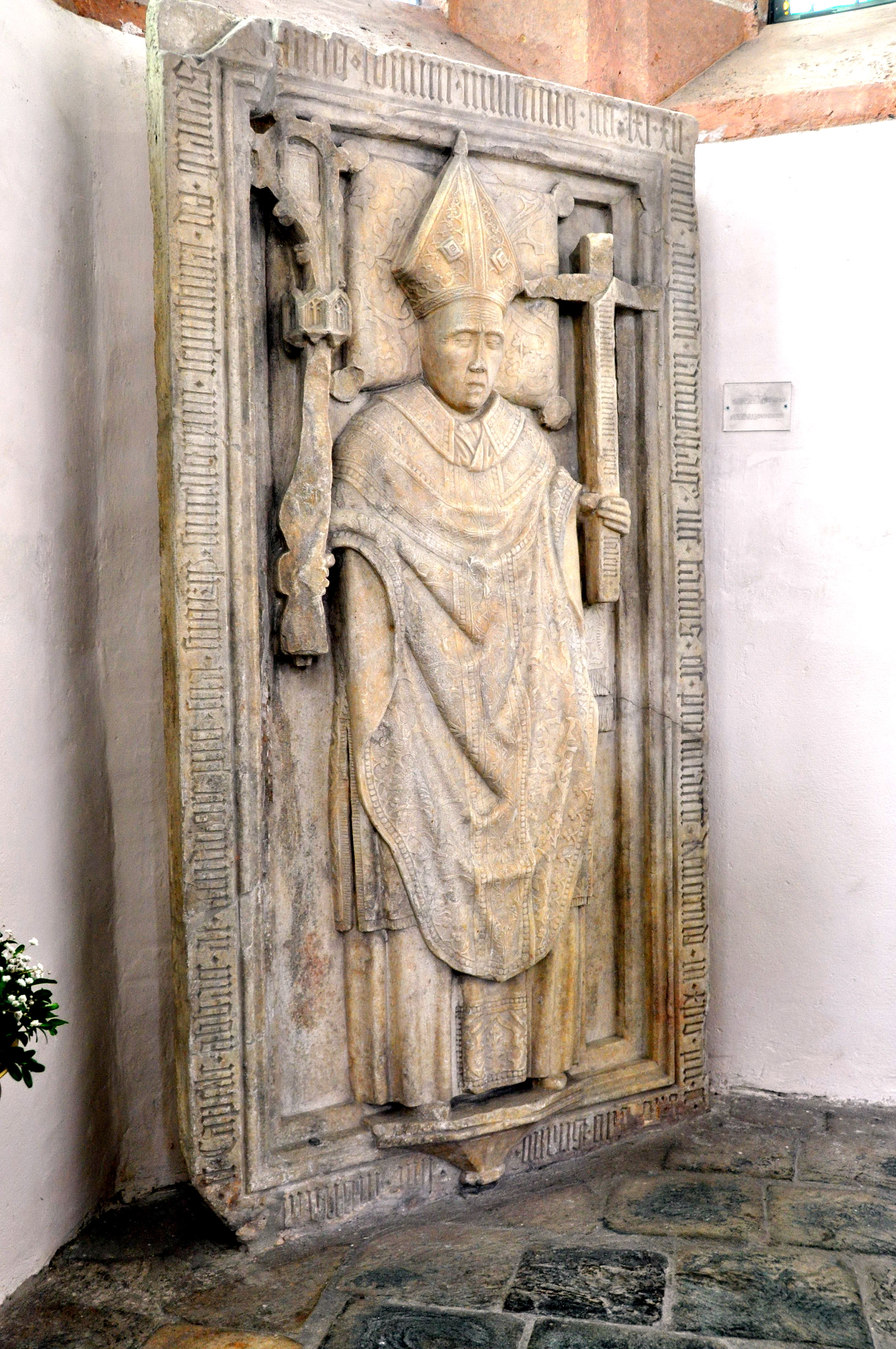 Sarcophagus covering panel with the figurative exposure of abbot Gerhard from the year 1461 in the baptistry of the abbey church inside the cistercian monastery Viktring in the 13th district "Viktring" of the Carinthian capital Klagenfurt on the Lake Woerth, Carinthia, Austria